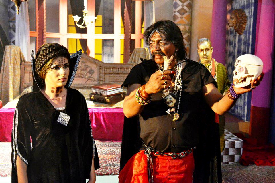 a Photo from Mobile Jin (Kids Drama Serial for PTV) Pakistan's Superhero